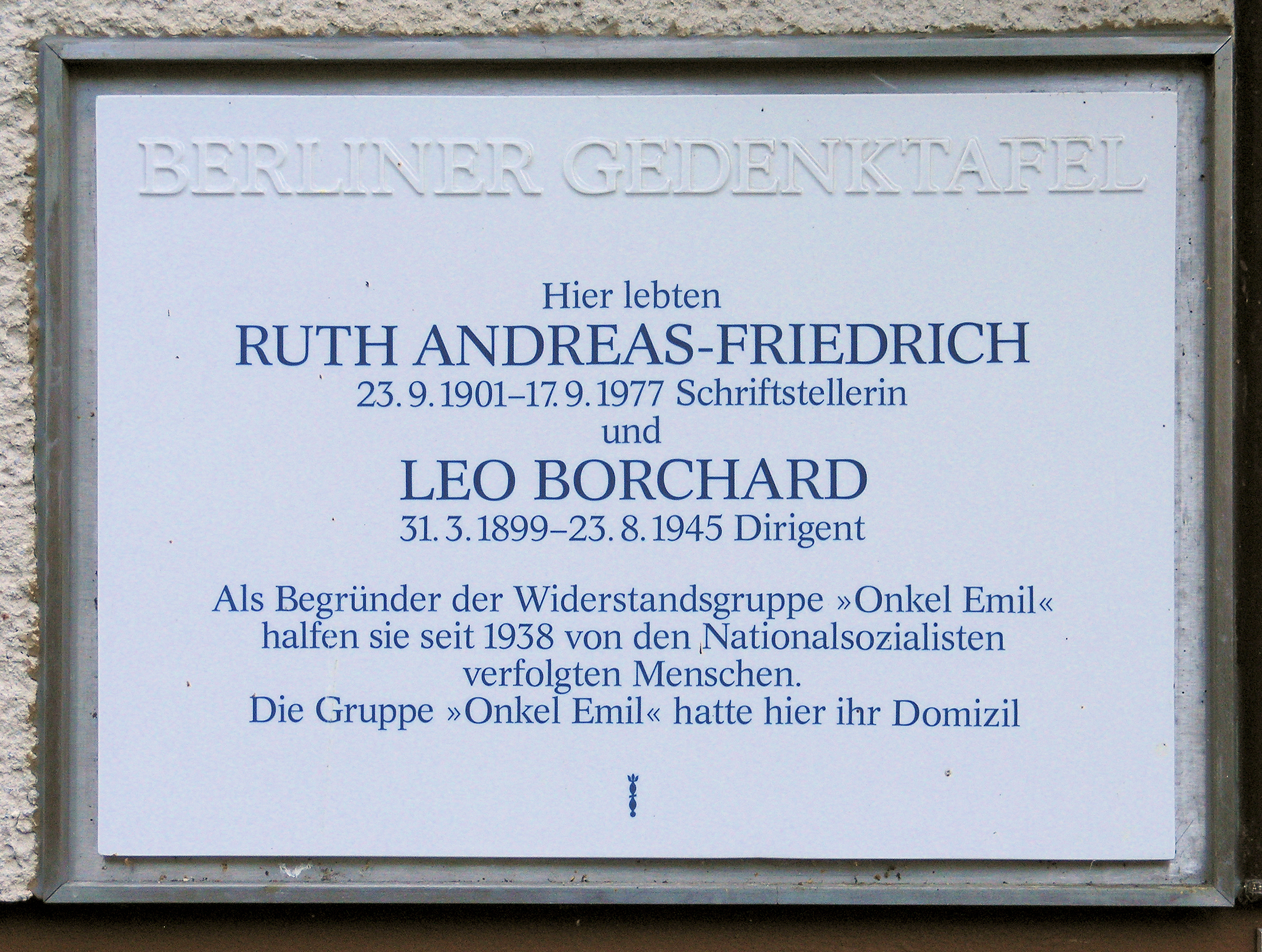 Berlin memorial plaque, Ruth Andreas-Friedrich and Leo Borchard, Hünensteig 6, Berlin-Steglitz, Germany